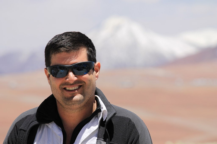 At the site of POLARBEAR in Chile